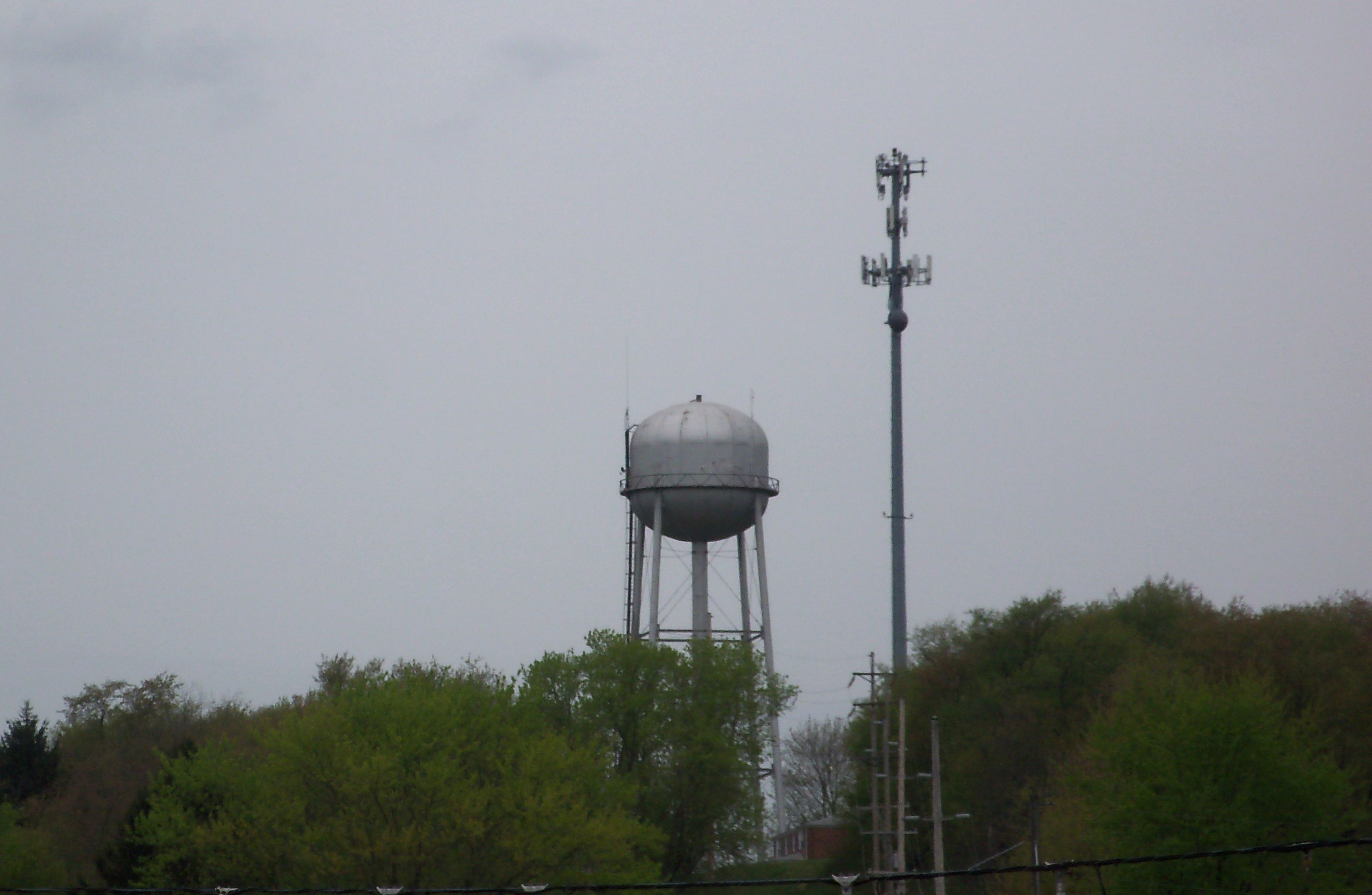 Water tower in Calcutta, Ohio